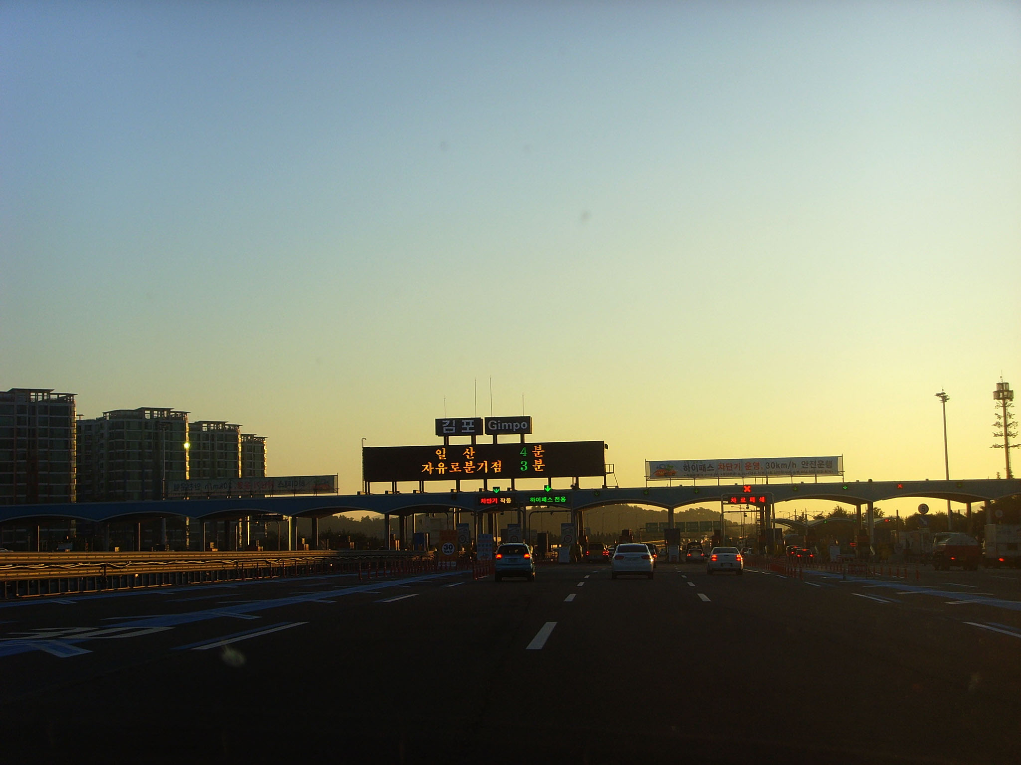 Seoul Ring Expressway Gimpo Tollgate